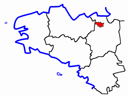 Description: Map for localisazion of cantons of Bretagne region in France Source: made by Hervé Tigier from another large map